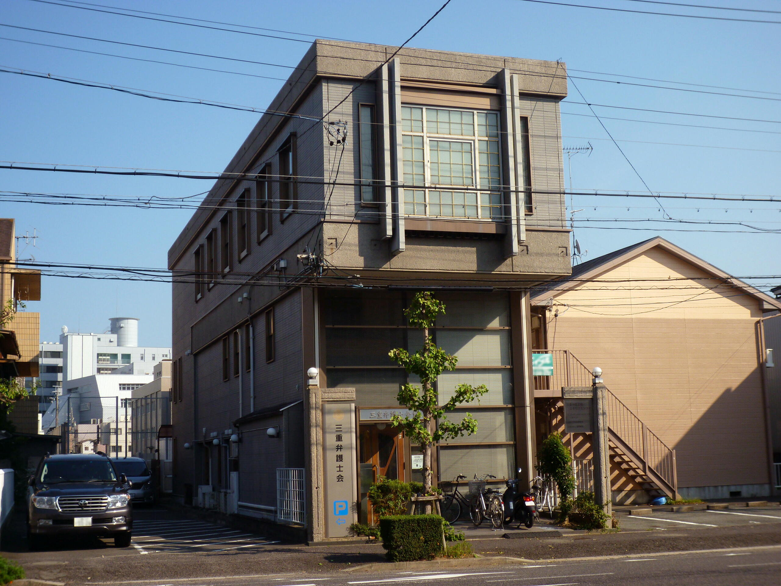 The "Mie Bar Association" in Tsu, Mie, Japan.